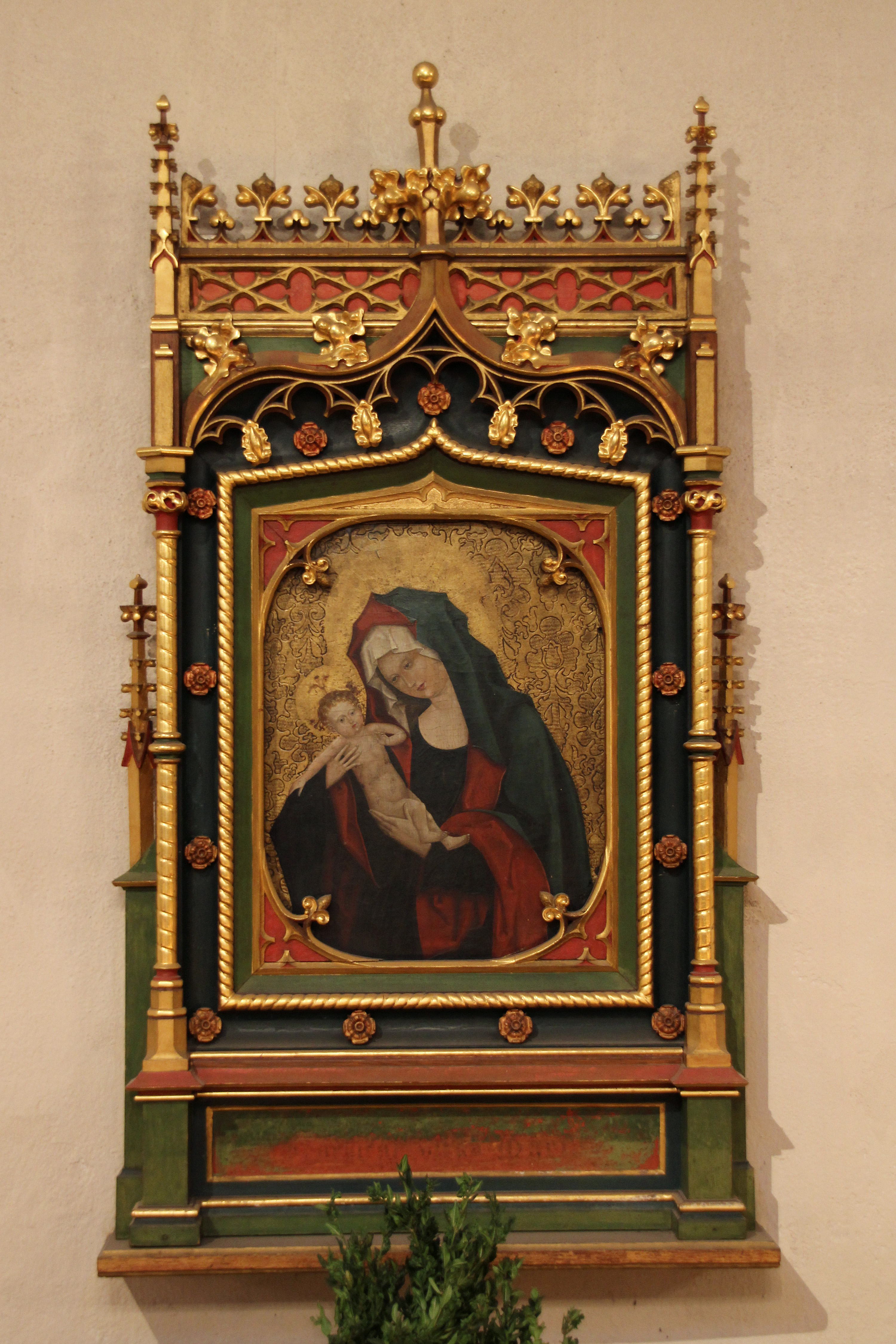 Basilica of St. Castor in Koblenz